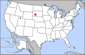 Location map of Badlands National Park — in South Dakota.